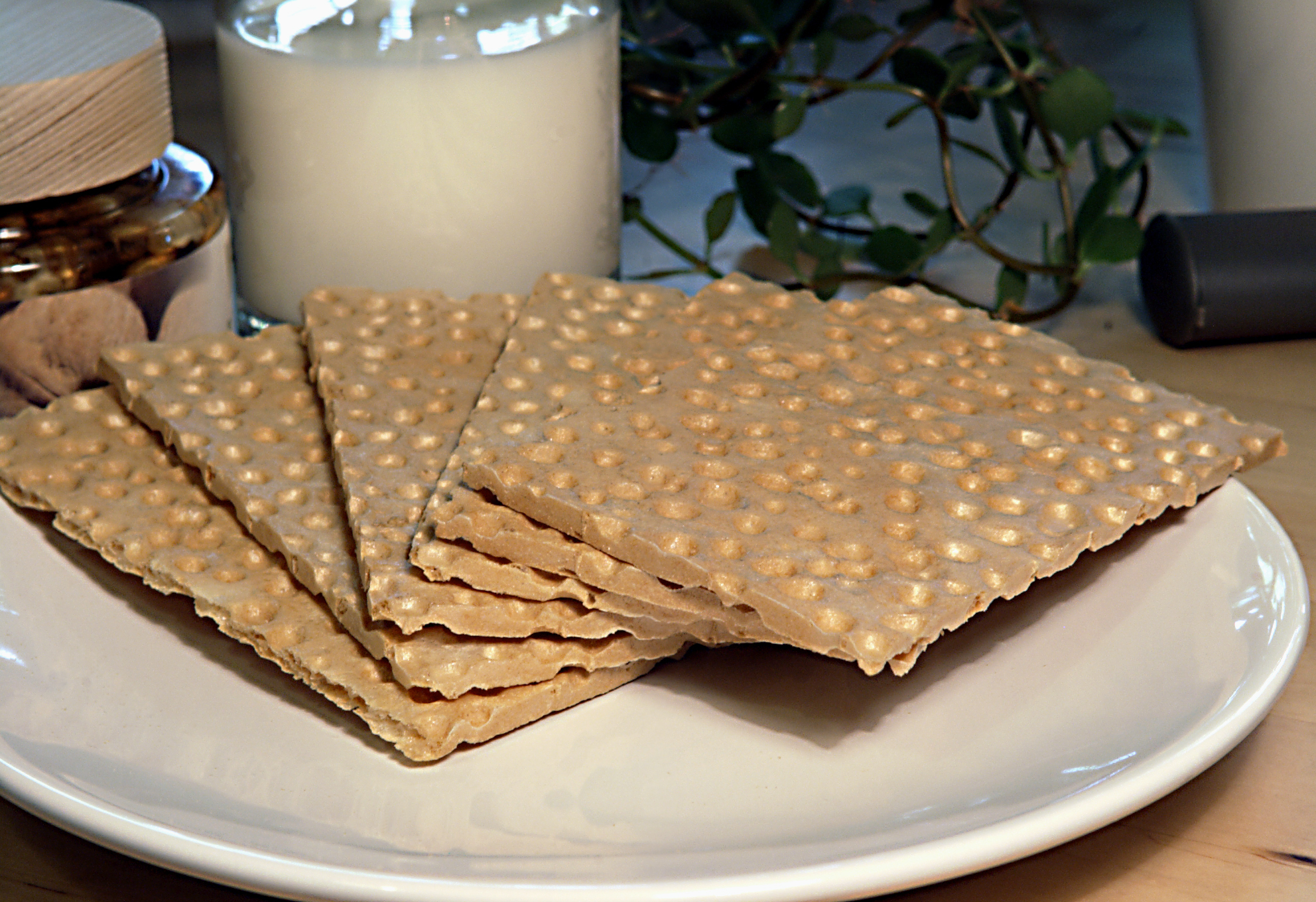 Filinchen are some kind of waffle bread which hab been inventend in the former German Democratic Republic.